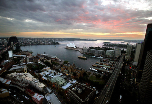 A pastel sky is seen Friday morning, Feb. 23, 2007, over Sydney, Australia, where US Vice President Dick Cheney was on a three-day visit. The Sydney Opera House at Bennelong Point can be seen in the middle, with Sydney Cove and Circular Quay in the foreground.